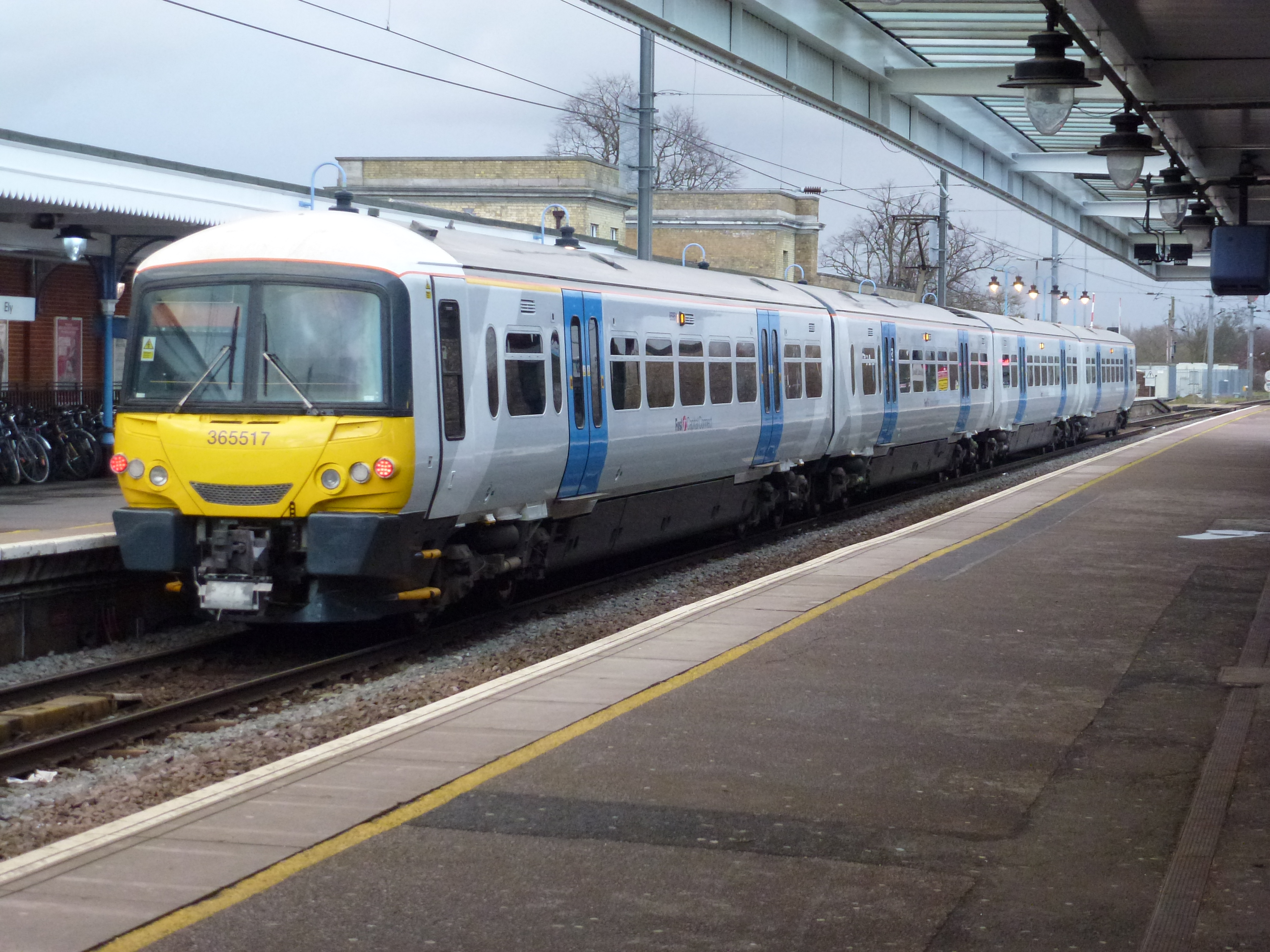 The first Class 365 in the Thameslink Southern Great Northern livery. This train has been through 1 of 2 stages of refurbishment at this time (23 January 2014). Here it is seen at Ely for a service to London King's Cross. This image is also on my Flickr (Green Cream and Tangerine livery)